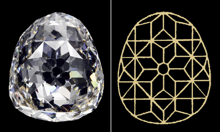 Comparison between a copy of the Beau Sancy diamond (left) and Thomas Cletcher's 1644 sketch (right)